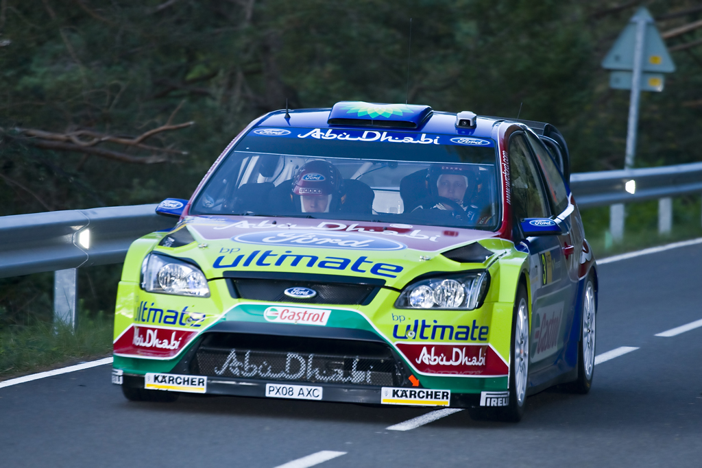 Mikko Hirvonen driving his Ford Focus RS WRC 08 at the 2008 Rally Catalunya.